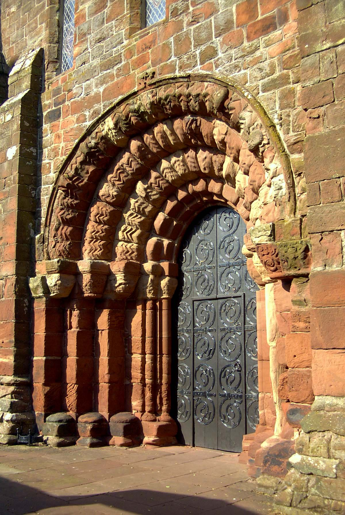 The magnificent west door of St Bees Priory, Cumbria, UK. Built Ca. 1160 AD.